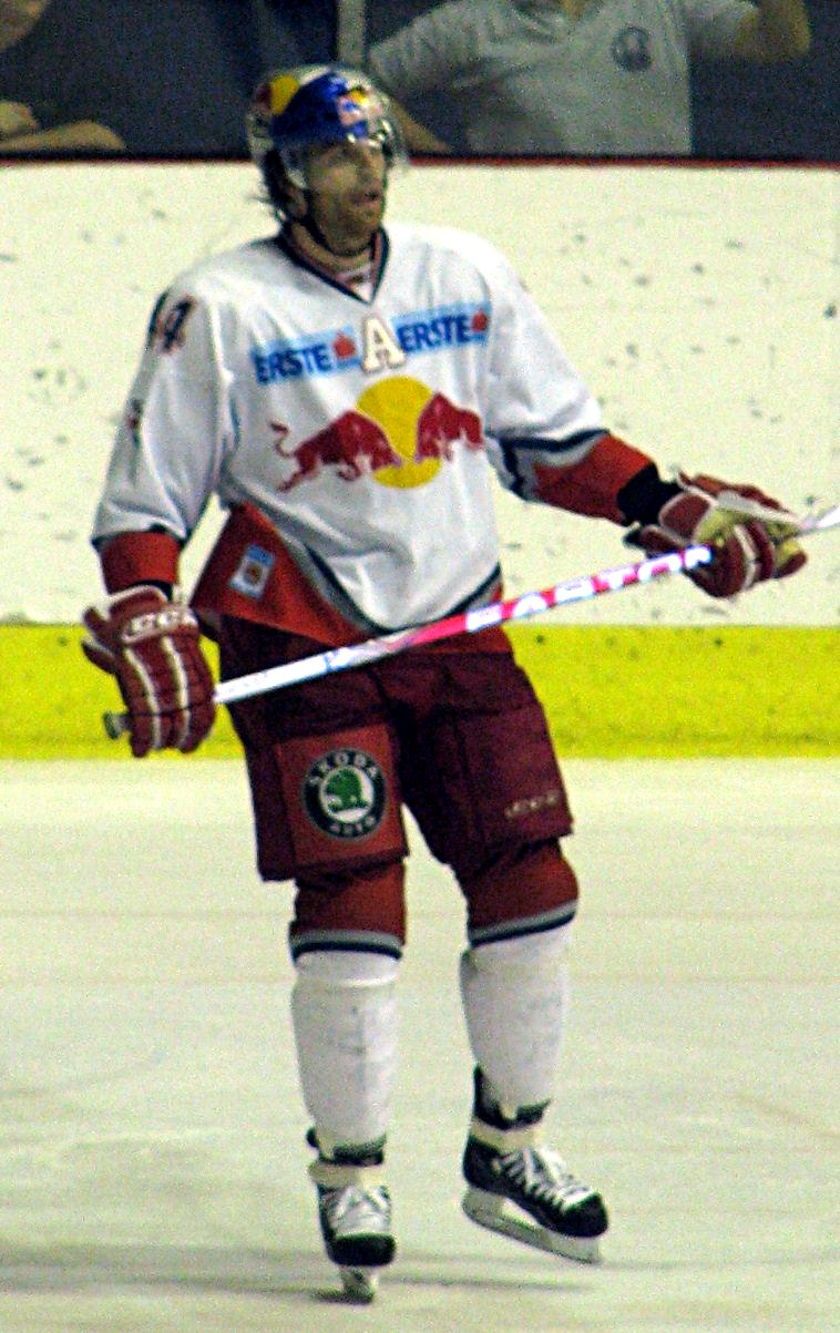 Doug Lynch